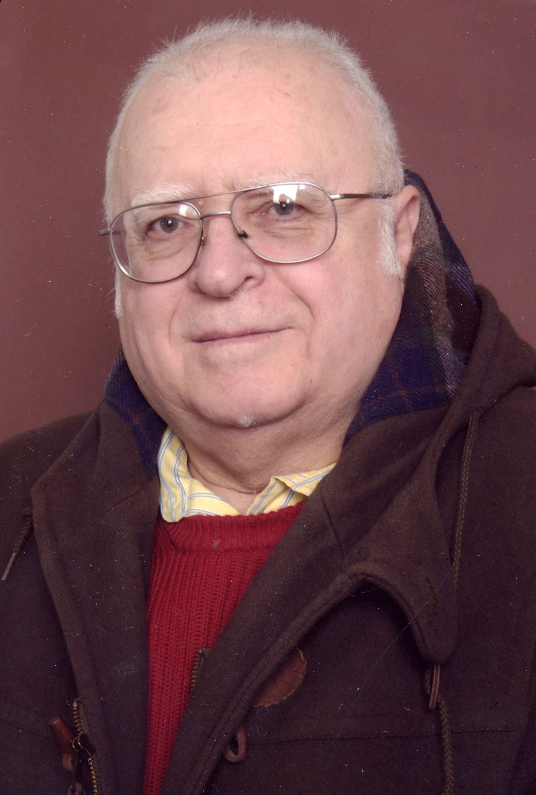 Picture of Virgil Nemoianu (2005) Own work. Released for public domain.